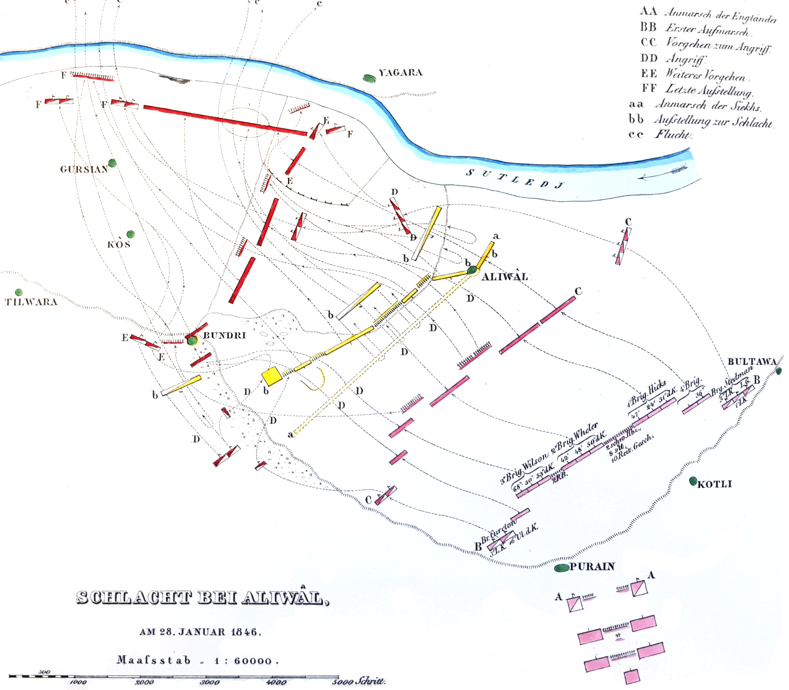 German map of the Battle of Aliwal, 1846-01-28.